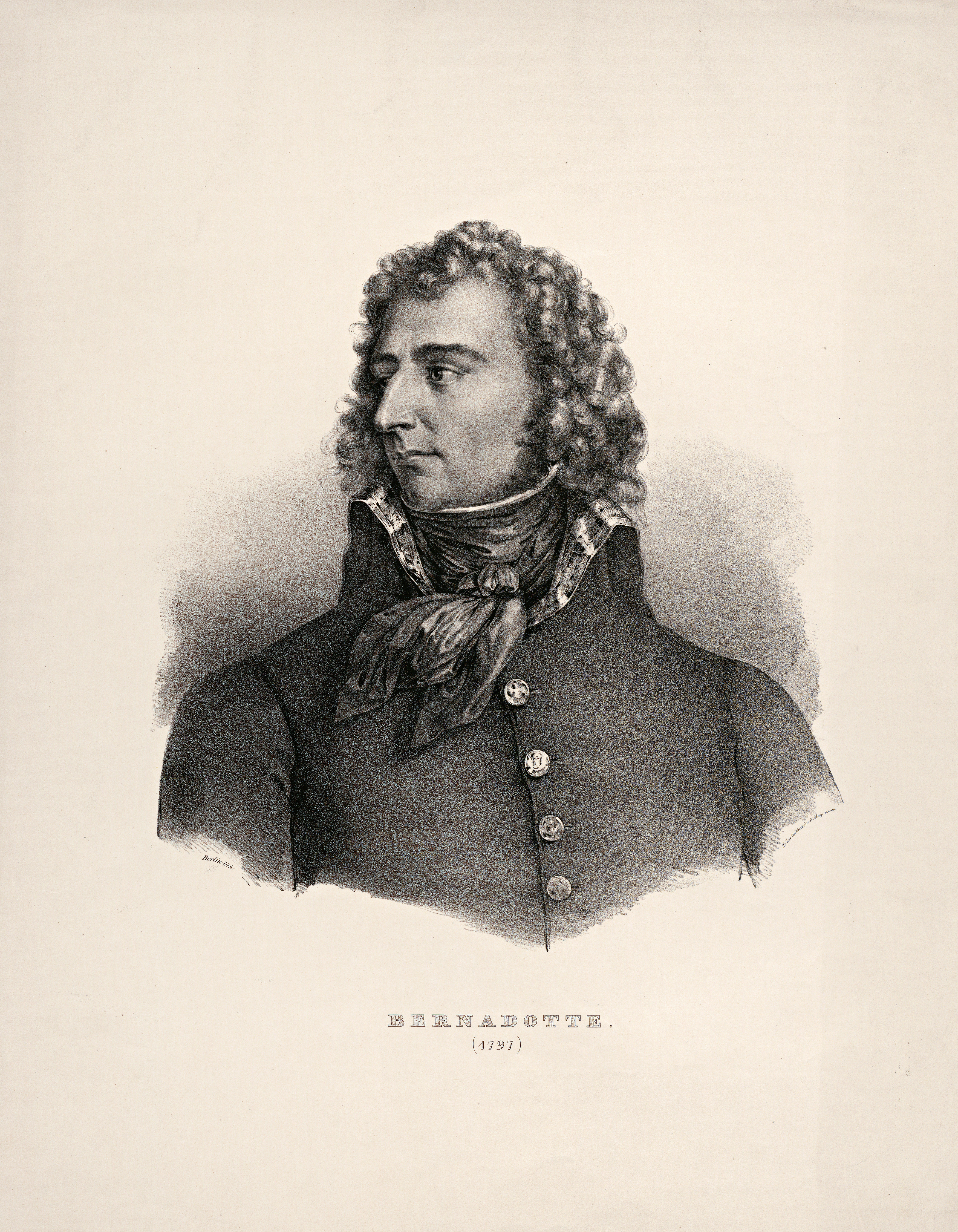 Beskrivelse / Description: Karl Johan (1763-1844), i Sverige kjent som Karl 14 Johan. Karl Johan var konge i Sverige og Norge fra 1818 til hans død i 1844 (kilde: snl.no). Dato / Date: 1797 Kreditering / Credit: Herlin lith., Tr. hos Gjöthström & Magnusson Digital kopi av original / Digital copy of original: litografi Eier / Owner Institution: Nasjonalbiblioteket / National Library of Norway Lenke / Link: Bildesignatur / Image Number: blds_06290